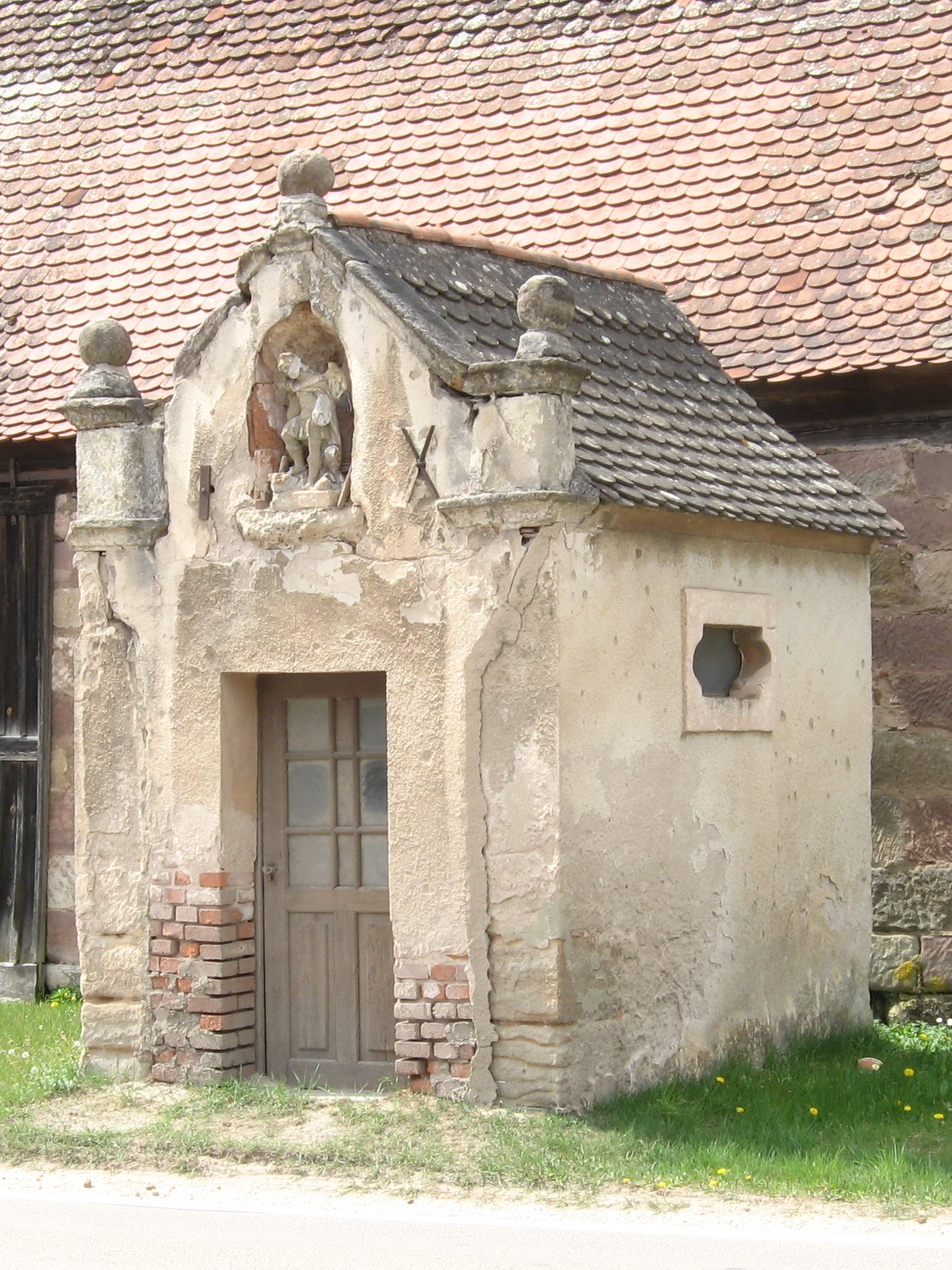 Chapel in Seemannsmuehle (part of Pleinfeld, Bavaria, Germany)